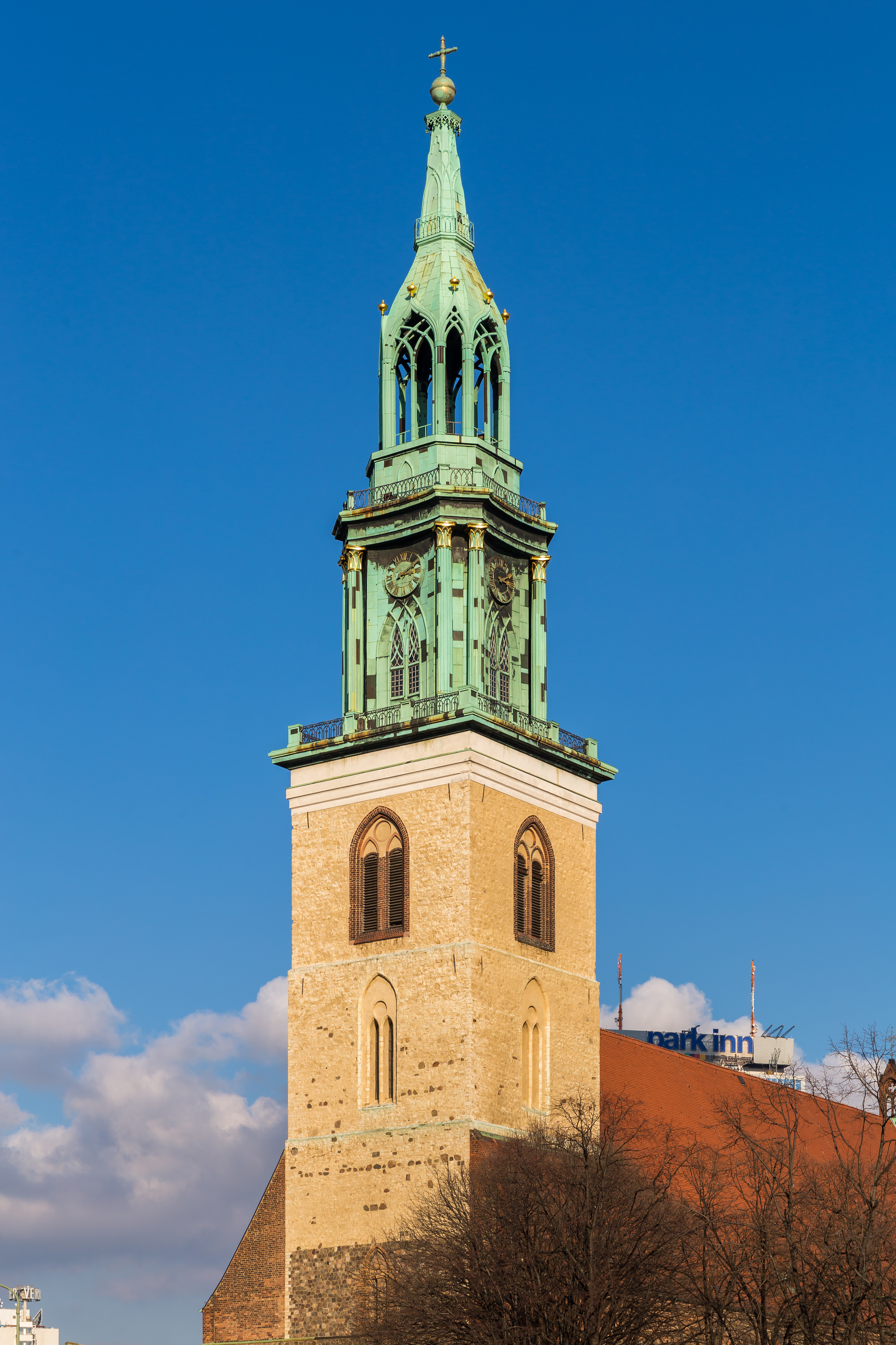 Bell tower of St. Mary's church in Berlin-Mitte.